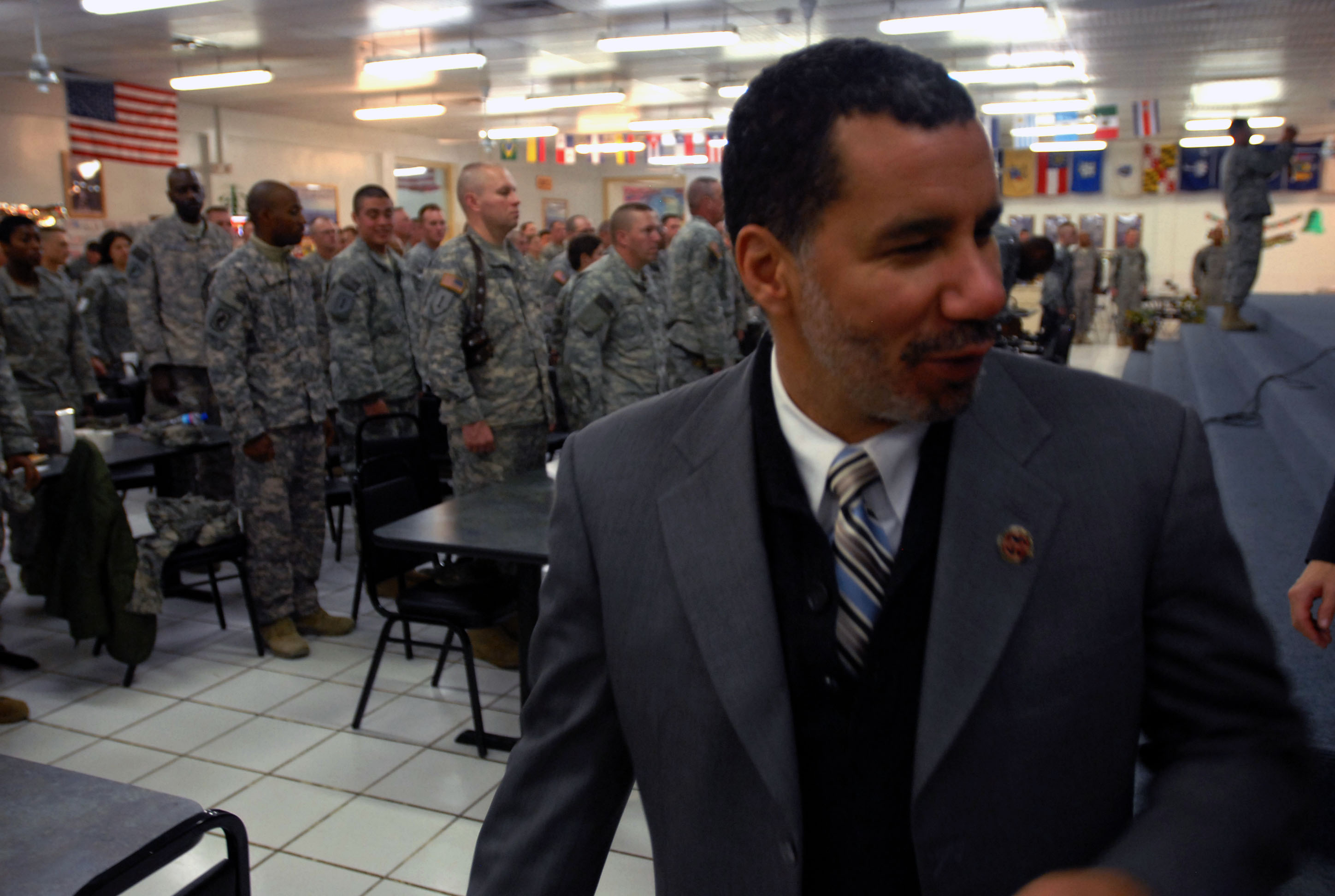 Troops stand as Gov. David Paterson exits the dining facility at Camp Phoenix, Kabul, Afghanistan. Paterson handed out awards to members of the 27th Infantry Brigade Combat Team during a visit to the outgoing New York-based unit. U.S. Army photo by Spc. Luke S. Austin, photojournalist